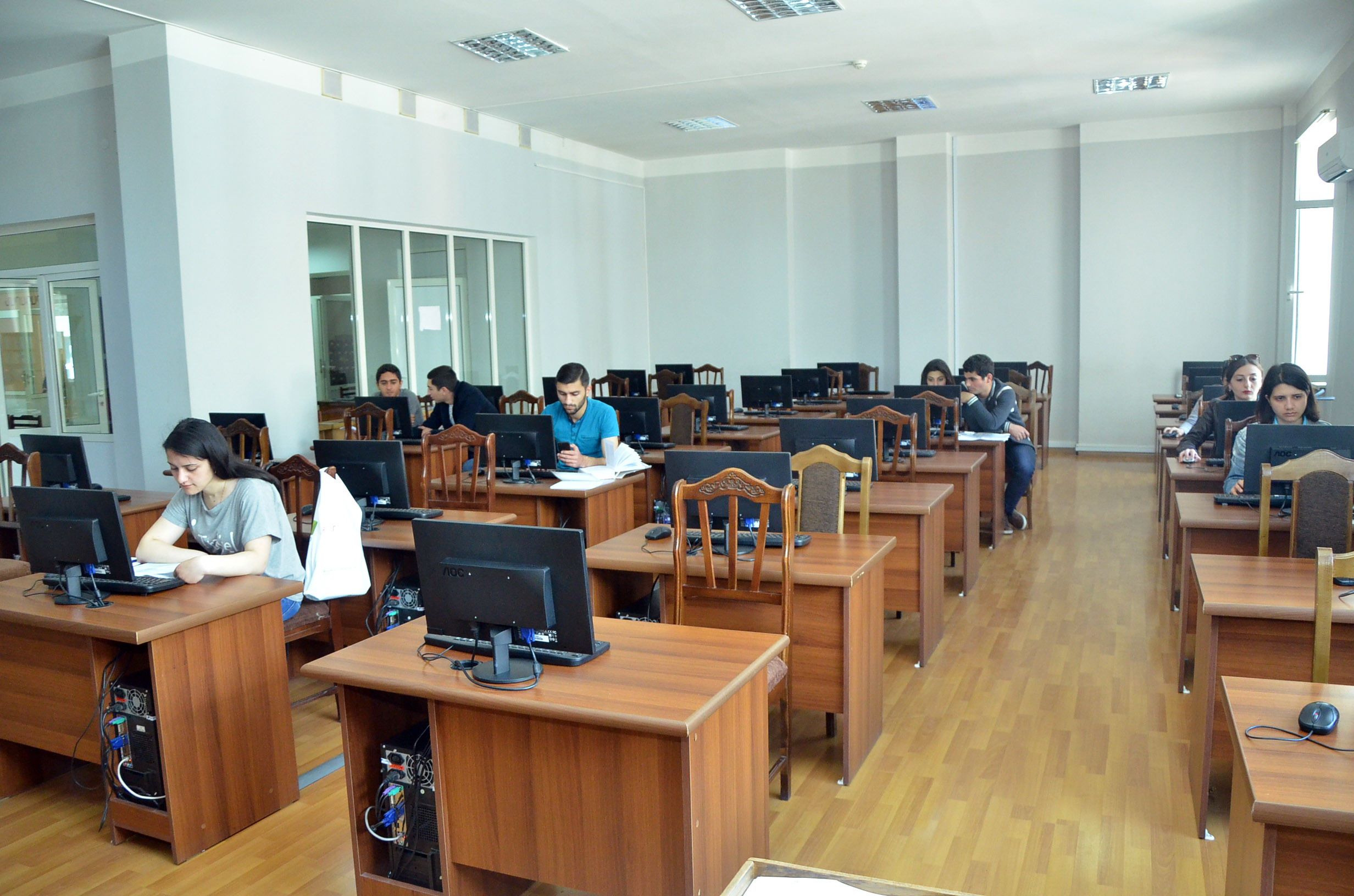 student